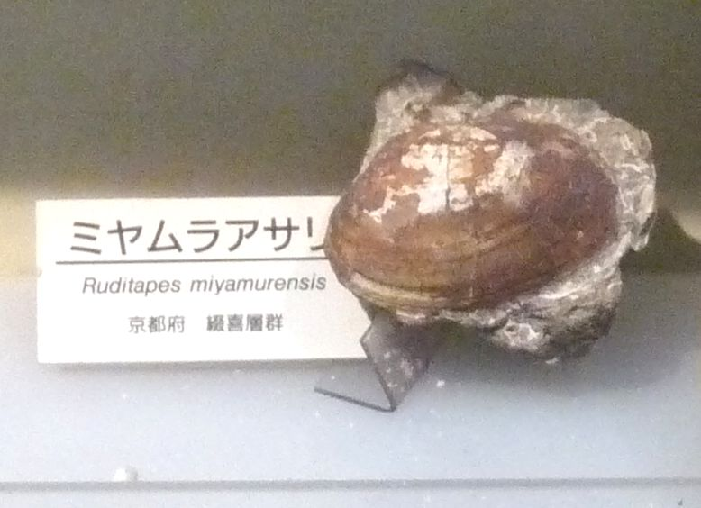 Ruditapes miyamurensis at Osaka Museum of Natural History